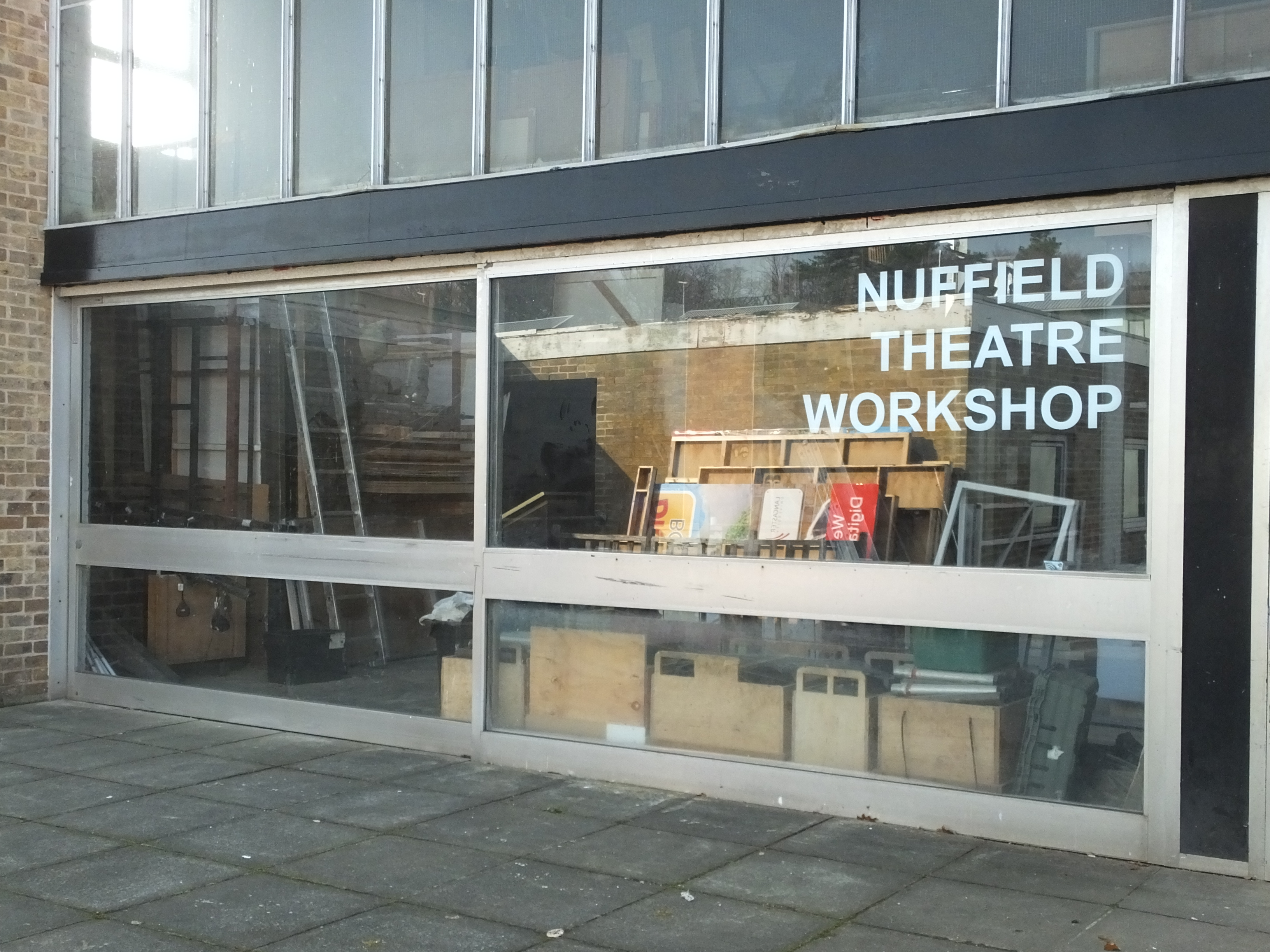 Lancaster University, taken during a vacation. The numbers in the filename cross refer to the official map.